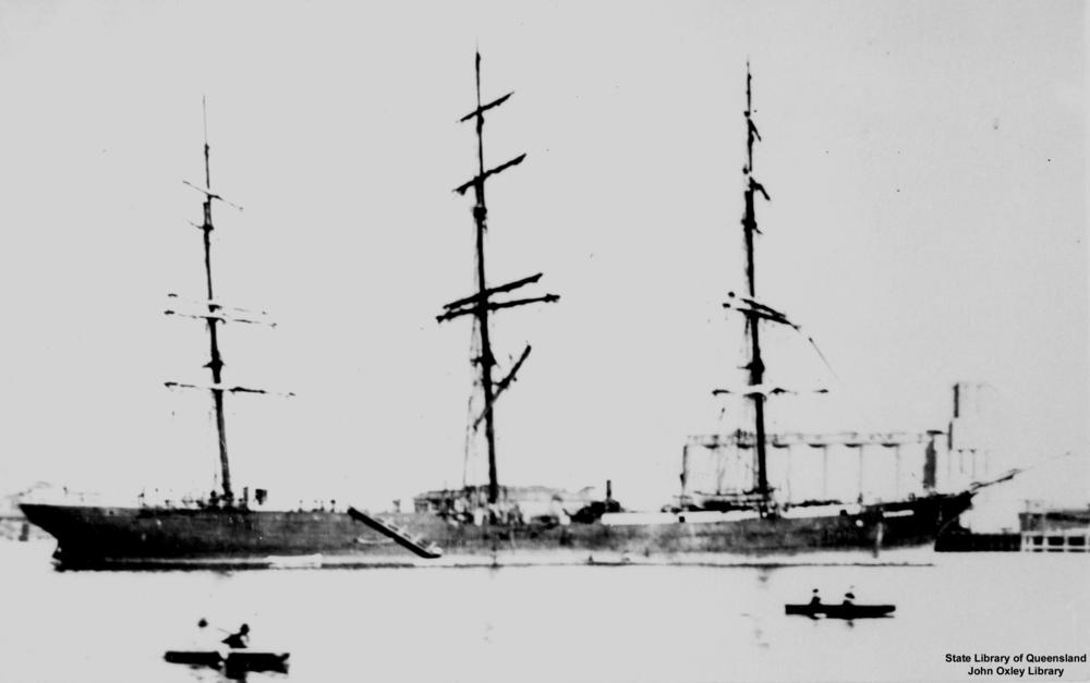 Chillicothe (ship)